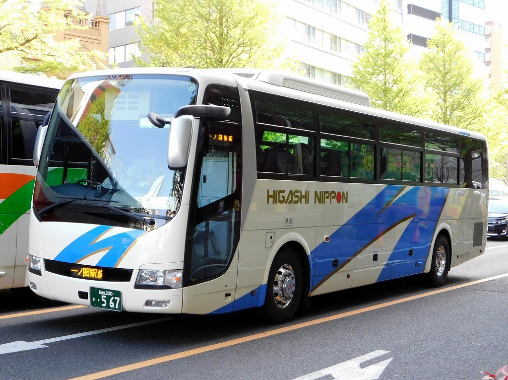 Higashinippon experss Mitsubishi Fuso Aero Ace (QTG-MS96VP)